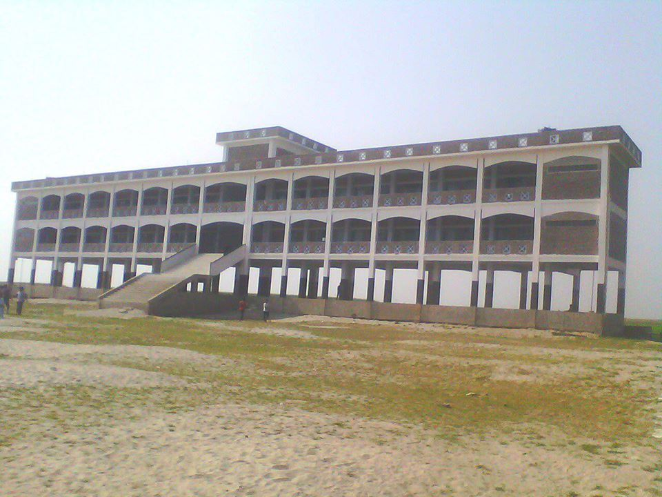 বাহেরবালী উচ্চ বিদ্যালয়